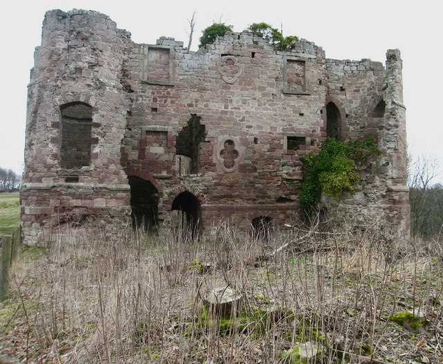 Twizel Castle. Twizel Castle, near Berwick-upon-Tweed, was originally a 15th century stone tower house that was destroyed in 1496. Remains were incorporated into a late 18th century five storey Gothic mansion. The house was never finished.